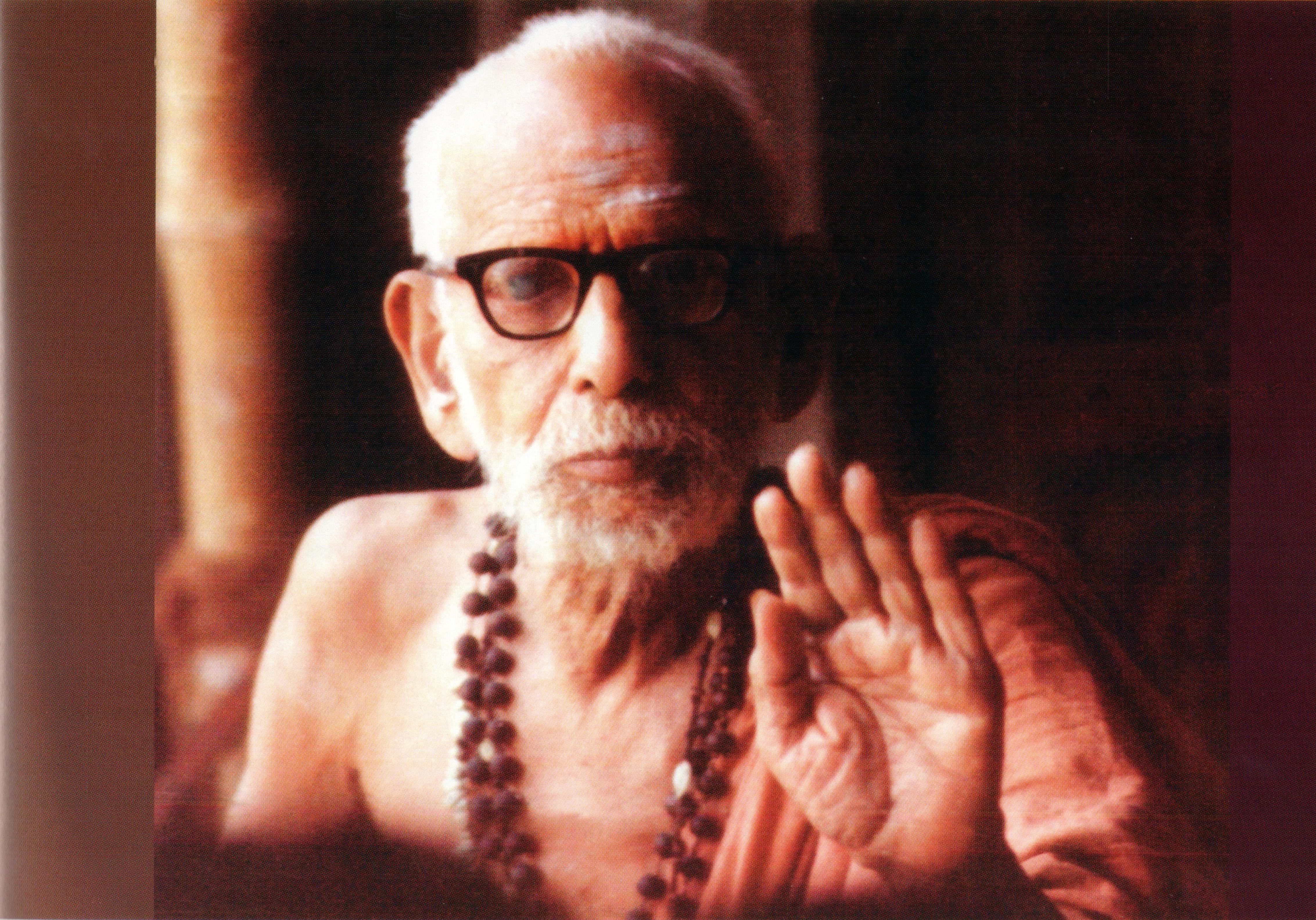 Courtesy: Tirumalesa